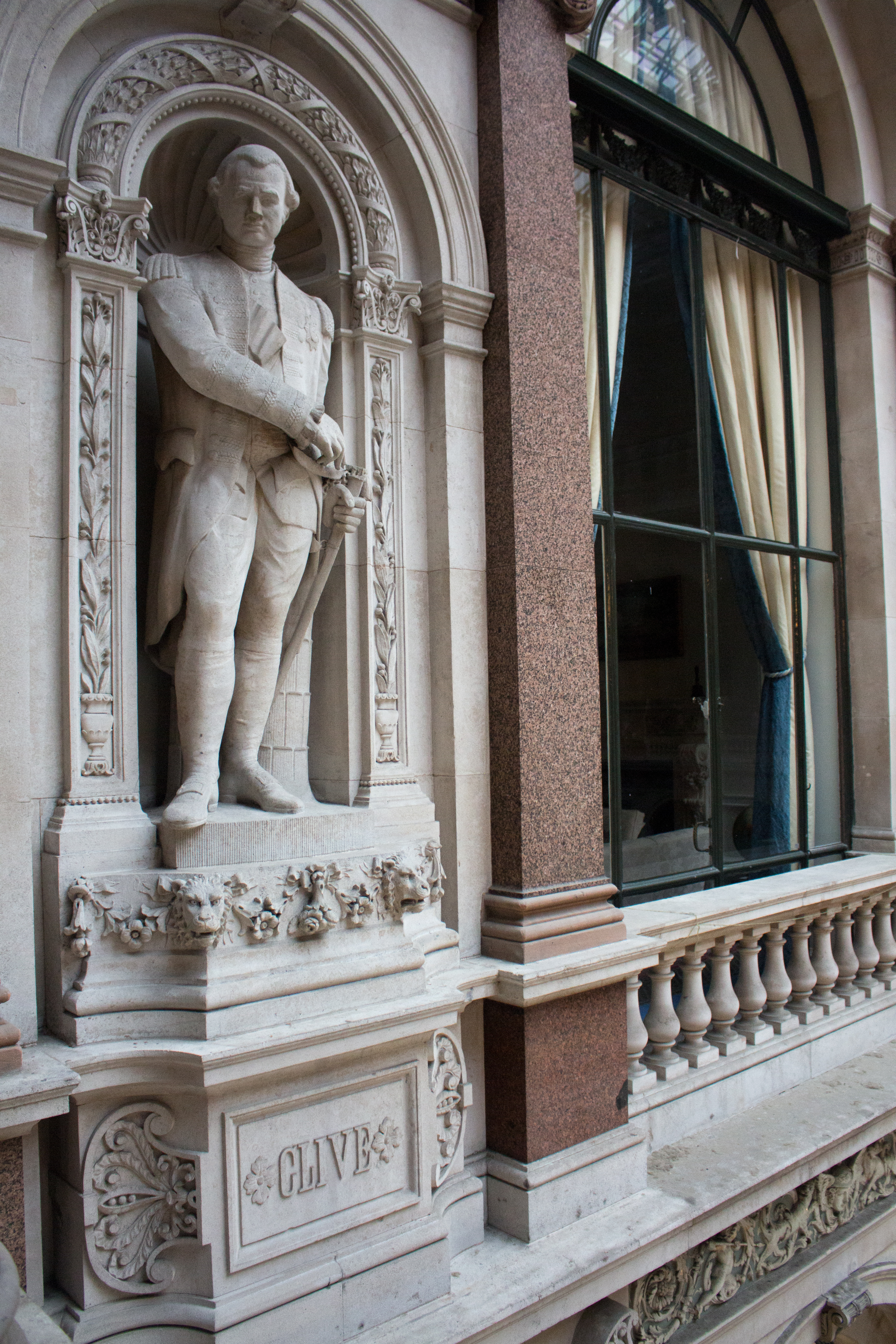 FOREIGN AND COMMONWEALTH OFFICE WITH HOME OFFICE THE FOREIGN OFFICE THE FOREIGN OFFICE (FOREIGN AND COMMONWEALTH OFFICE WITH HOM Wikidata has entry Q358834 with data related to this building.